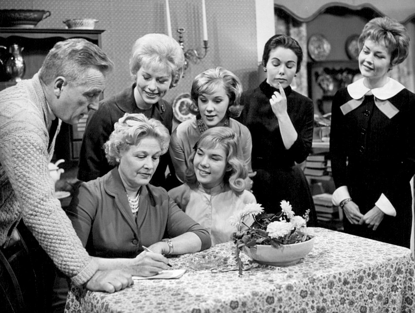 Photo the cast of the short-lived daytime drama Our Five Daughters. First row from left: Michael Keene (Jim Lee-standing), Esther Ralston (Helen Lee-seated), Jacqueline Courtney (Ann Lee-seated). Top row: Patricia Allison (Barbara Lee), Iris Joyce (Marjorie Lee), Nuella Dierking (Jane Lee) and Wynne Miller (Mary Lee). The item has no copyright markings on it as can be seen in the links above.